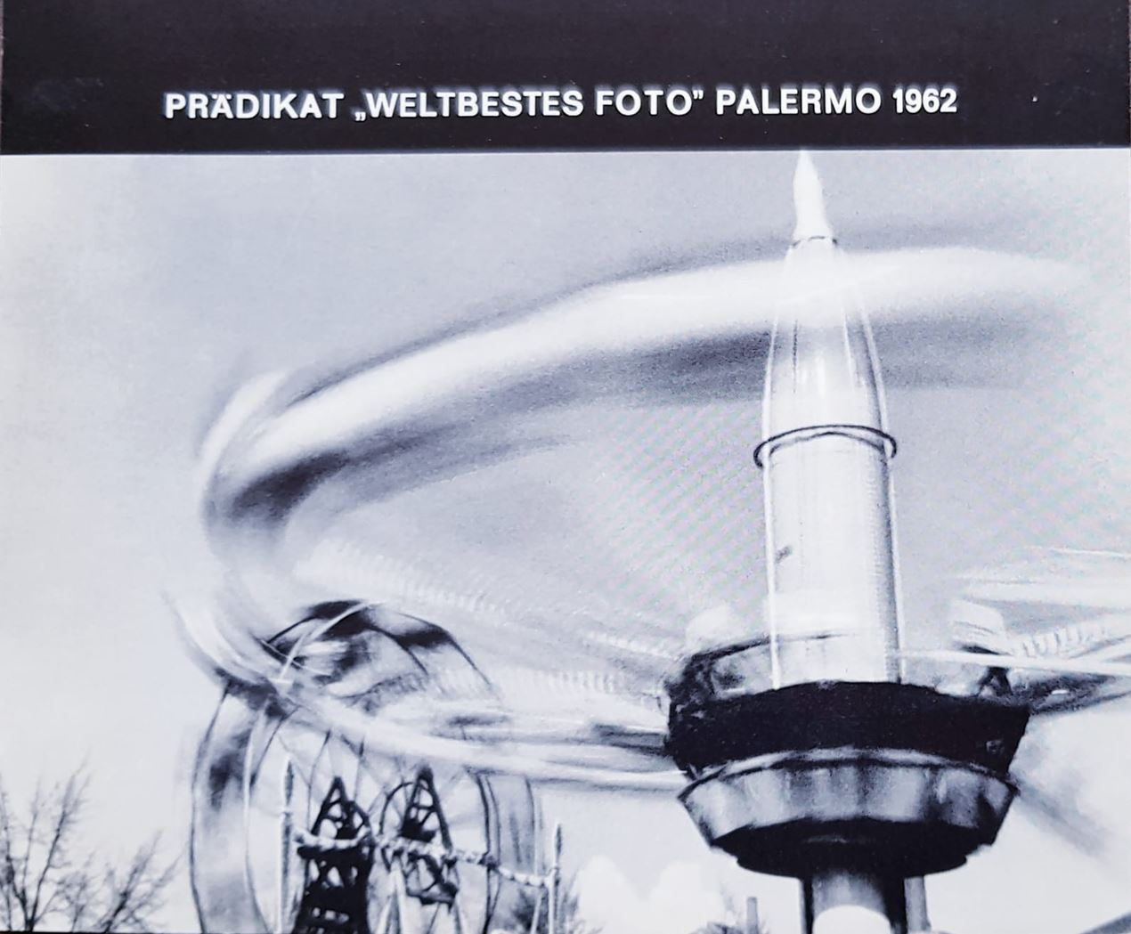 Weltbestes Foto 1962, Palermo